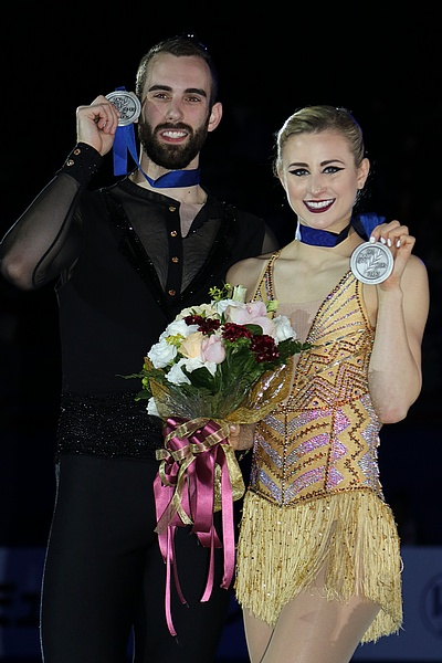 Ashley Cain and Timothy LeDuc at the 2018 Four Continents Championships - Awarding ceremony